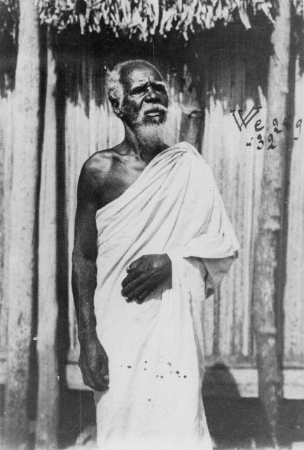 Old man (Antambahoaka tribe, Madagascar, 1908)